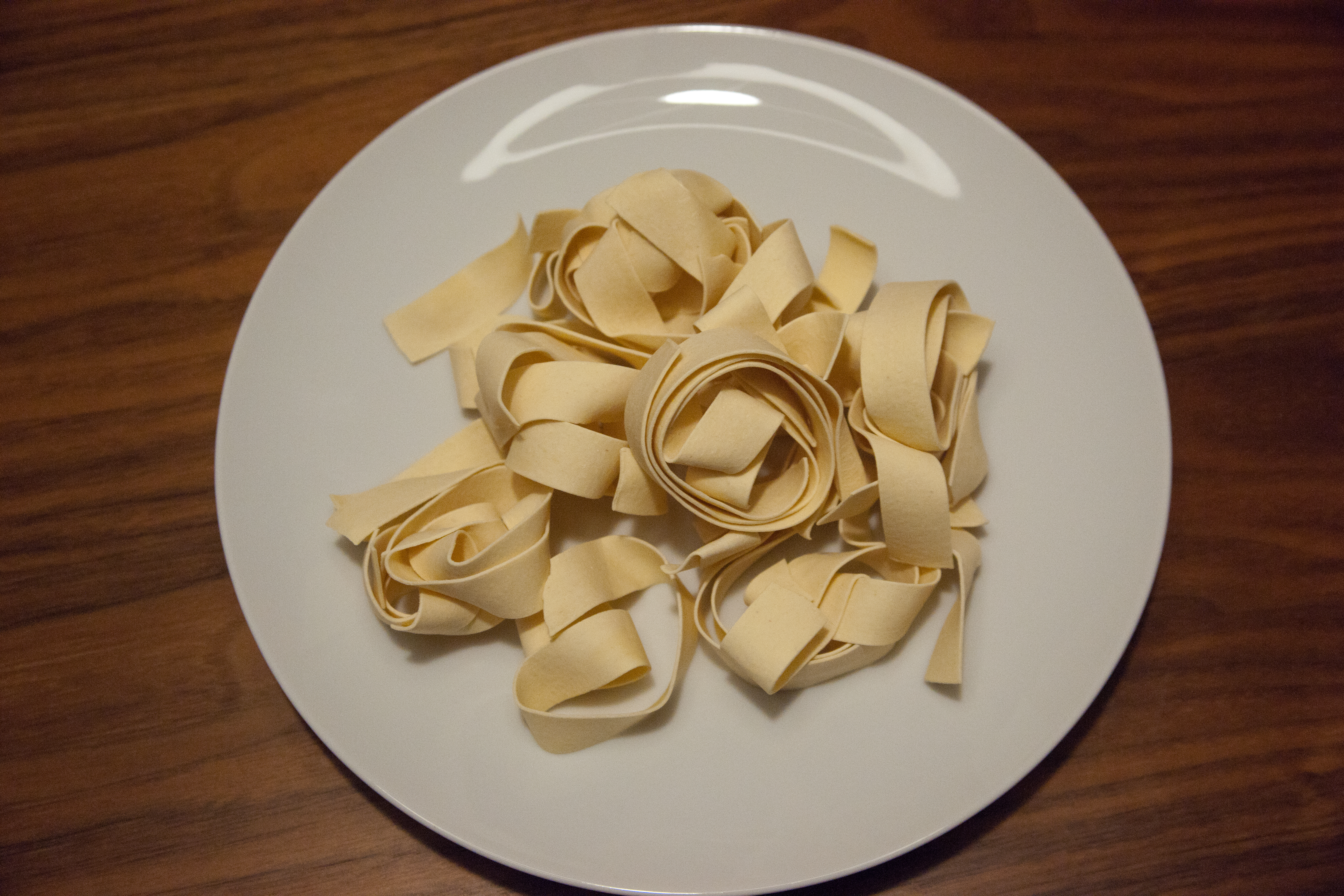 Pappardelle, uncooked